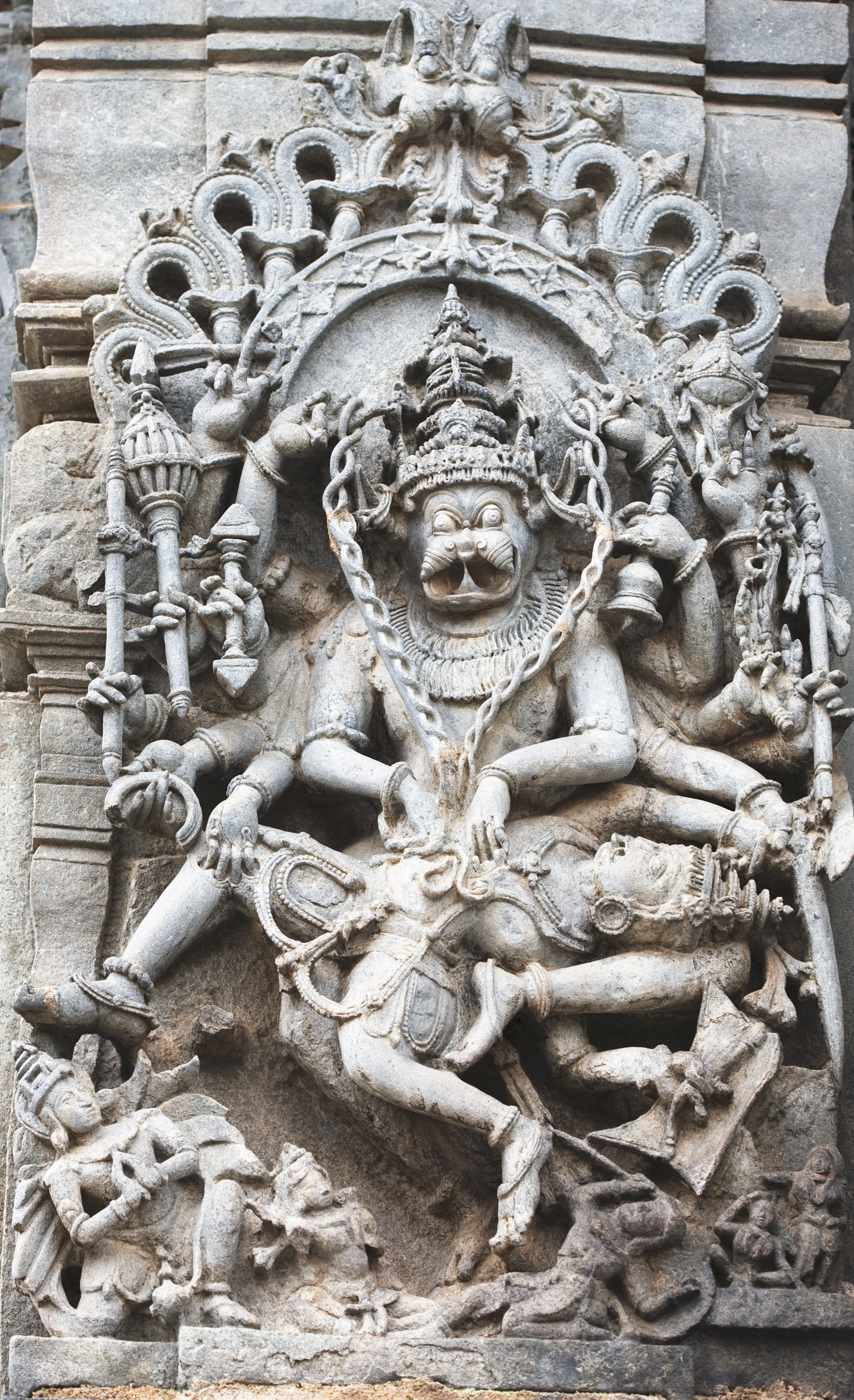 Hiranyakashipu the asura being killed by Narasimha avatar of Vishnu, neither indoors nor outdoors (on a threshold) neither in day or night (at twilight) neither in space nor on the ground (on his lap) by neither man nor animal (half man, half lion) by neither animate nor inanimate (his claws.) The chainlike things are his intestines. Chennakesava Temple, BElur